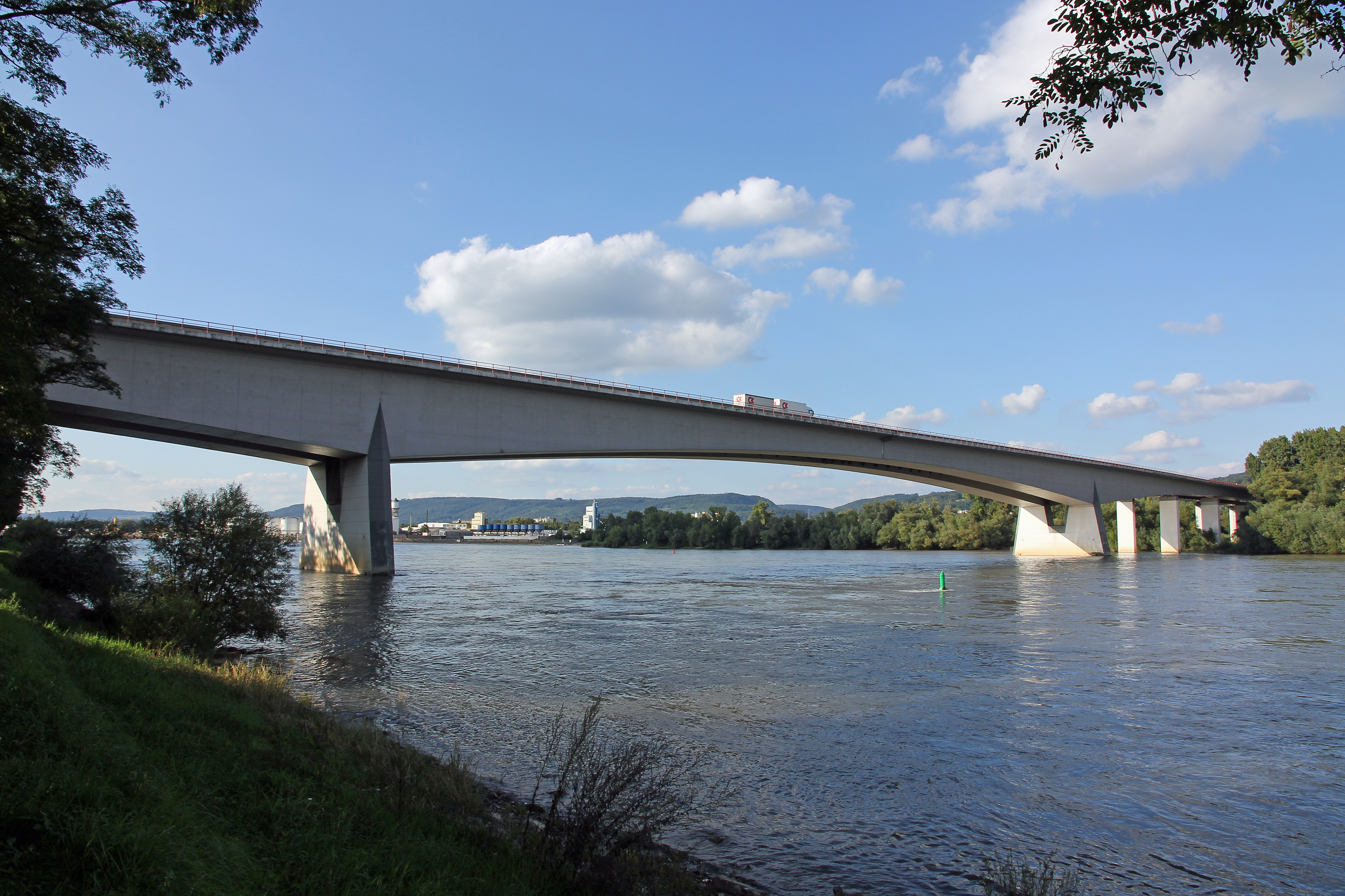 Bendorf bridge nearby Koblenz